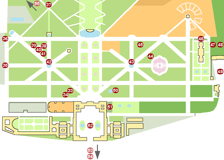 Orientation map on positions of further statues in the gardens of Schönbrunn. On interim description, see deWP article.